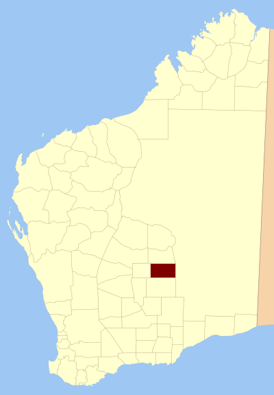 Location of the Weld district in Western Australia, part of the Cadastral divisions of Western Australia